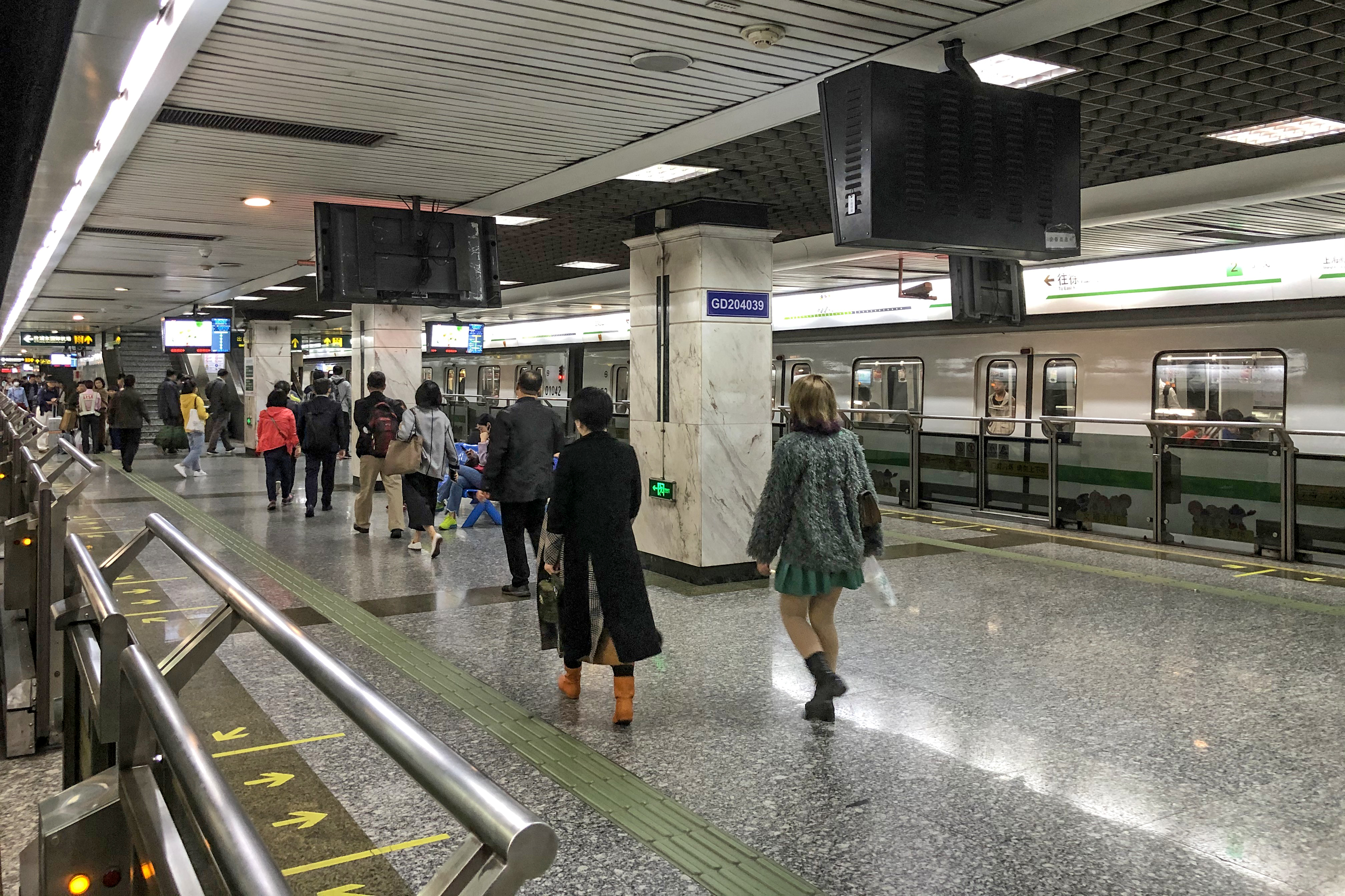 Pudong Central Park.